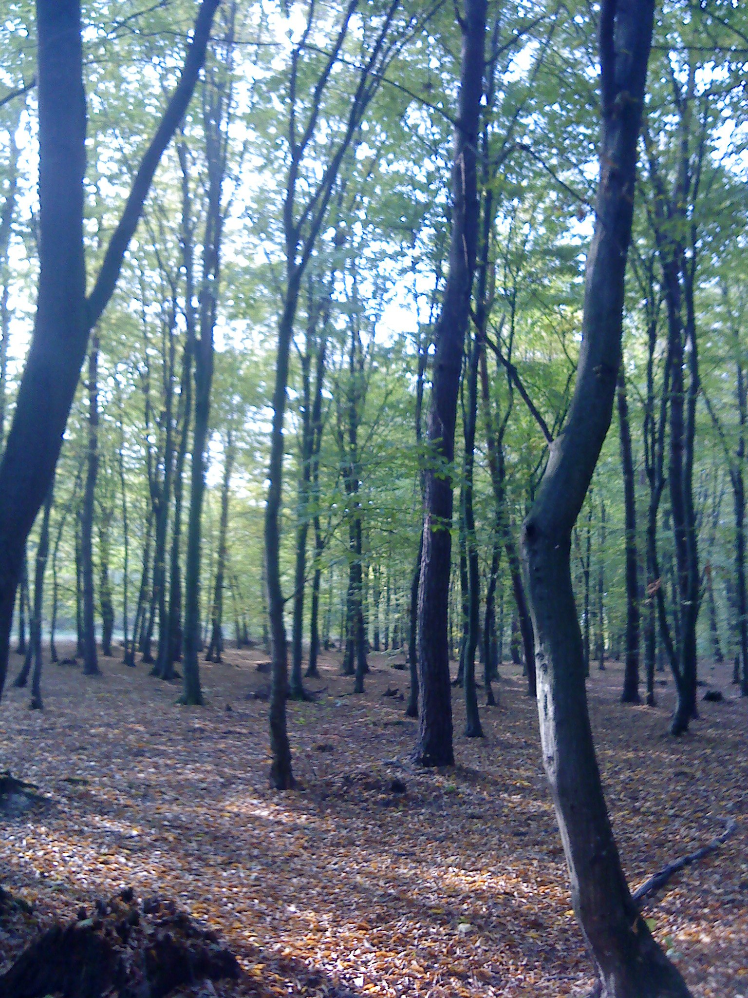 forest in Mazyarka